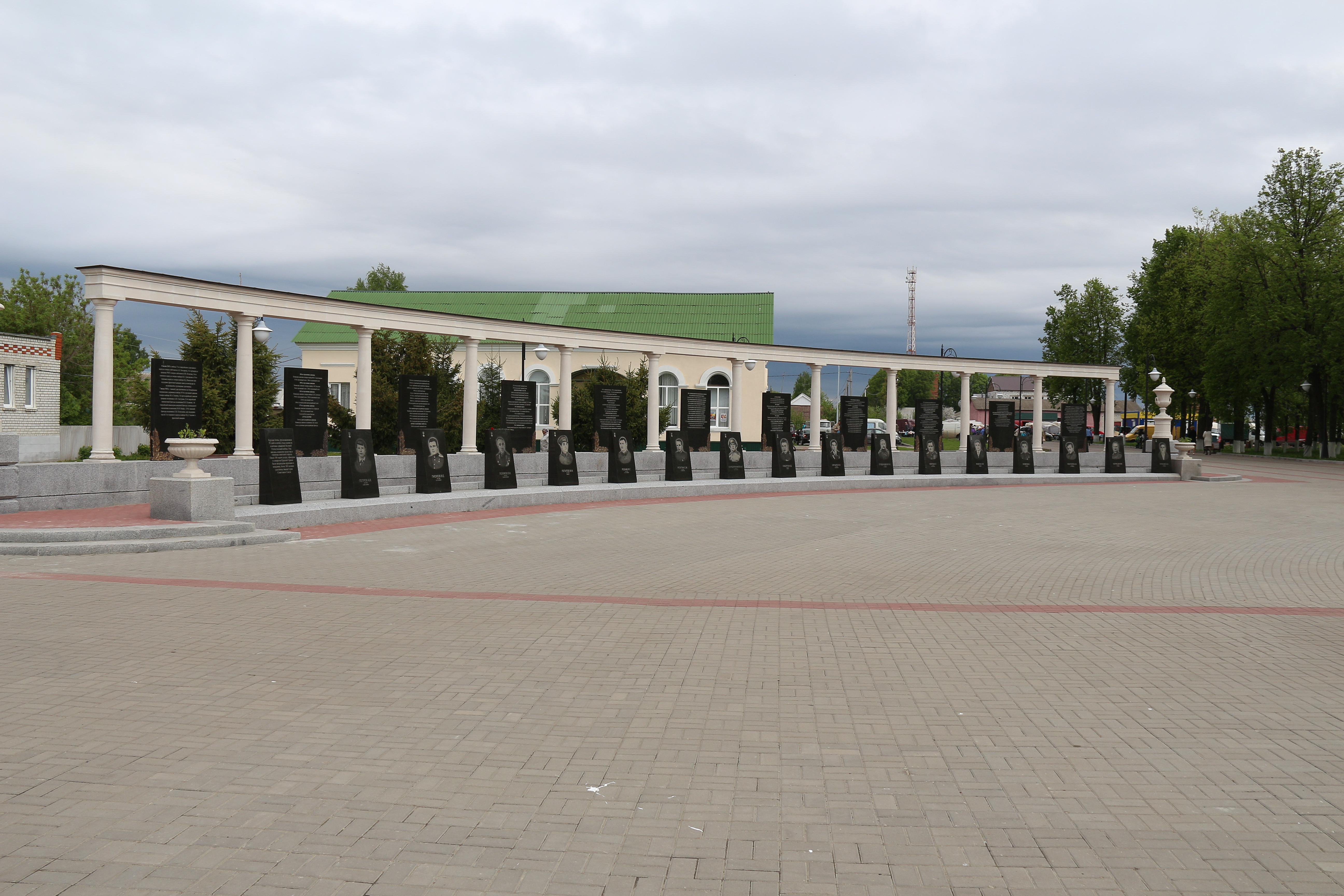 Ponyri city, memorial